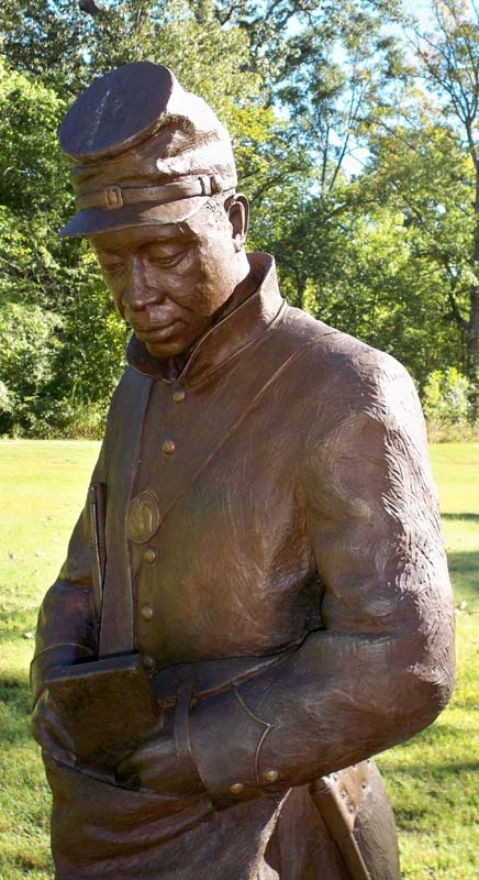 A bronze statue of a USCT at Corinth Contraband Camp